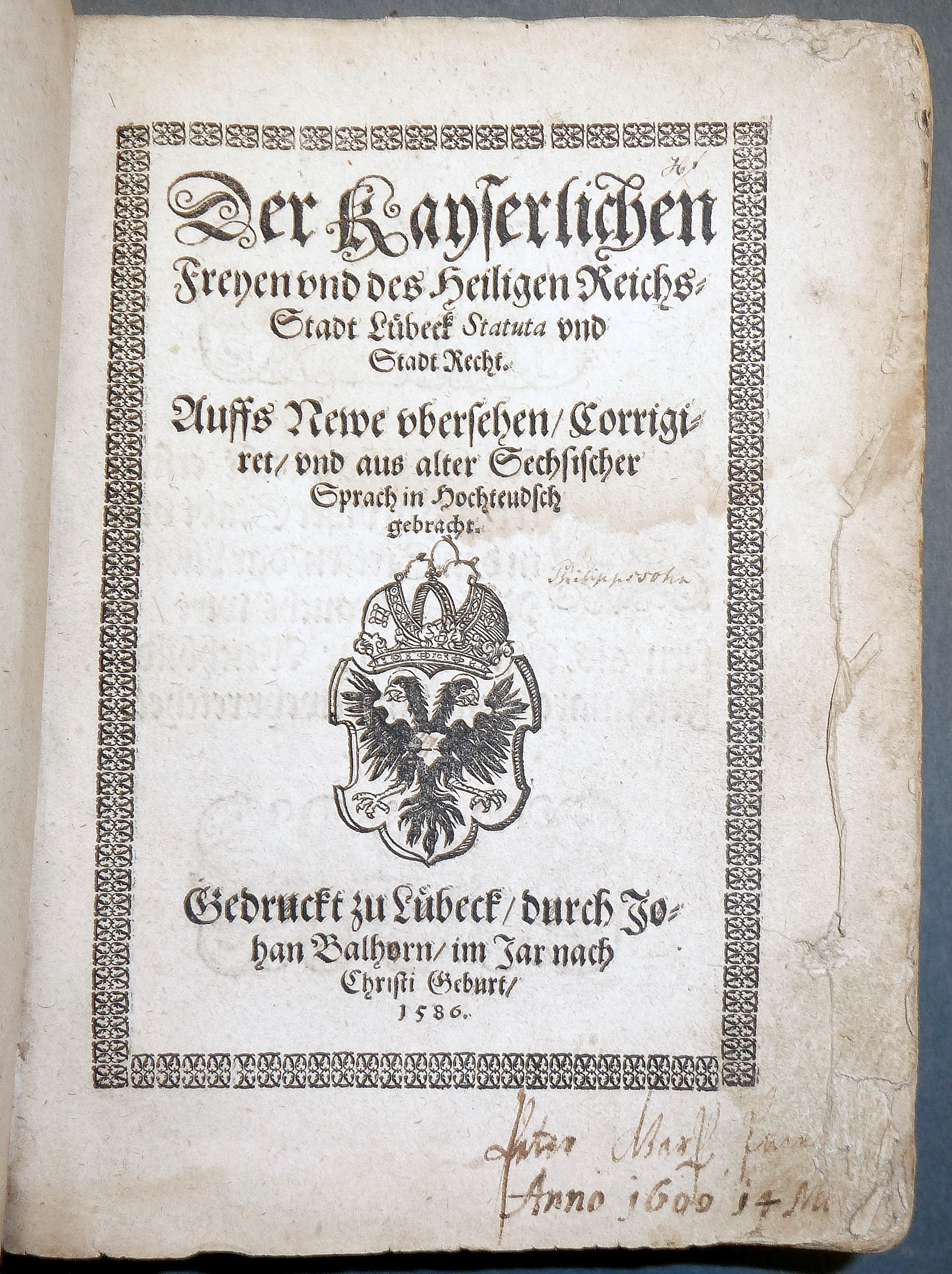 Above: Philippssohn [Ms. inscription.] Beneath: Pater [...] [...] Anno 1600 14 M[...] [Partially illegible dated ms. inscription.] Woodcut coat of arms of Lübeck (with ms. enhancement). Used by Johann Balhorn of Lübeck. DNB heading: Balhorn, Johann, ca. 1550- CERL heading: Balhorn, Johann (der Jüngere) Penn Libraries call number: GC55 L9676L 586s All images from this book